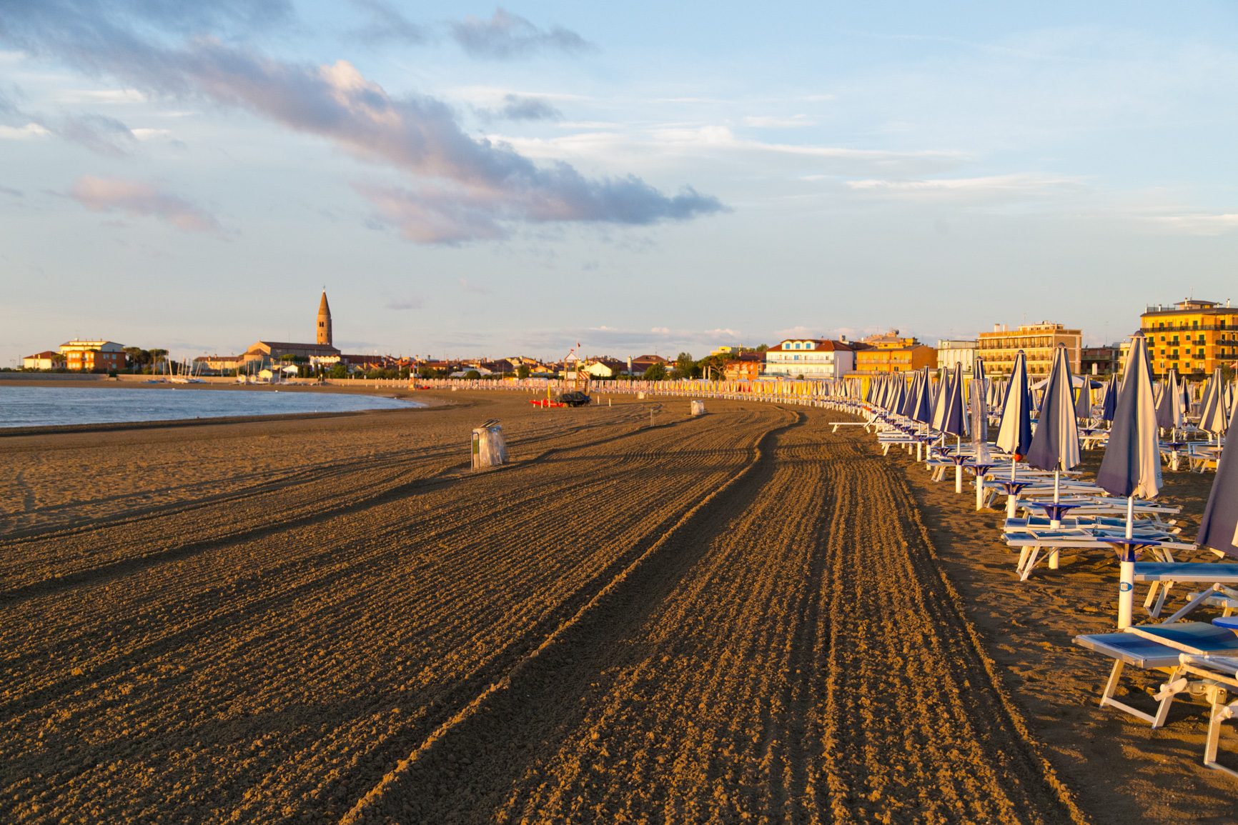 Lungomare Trieste, 1N, 30021 Caorle VE, Italy